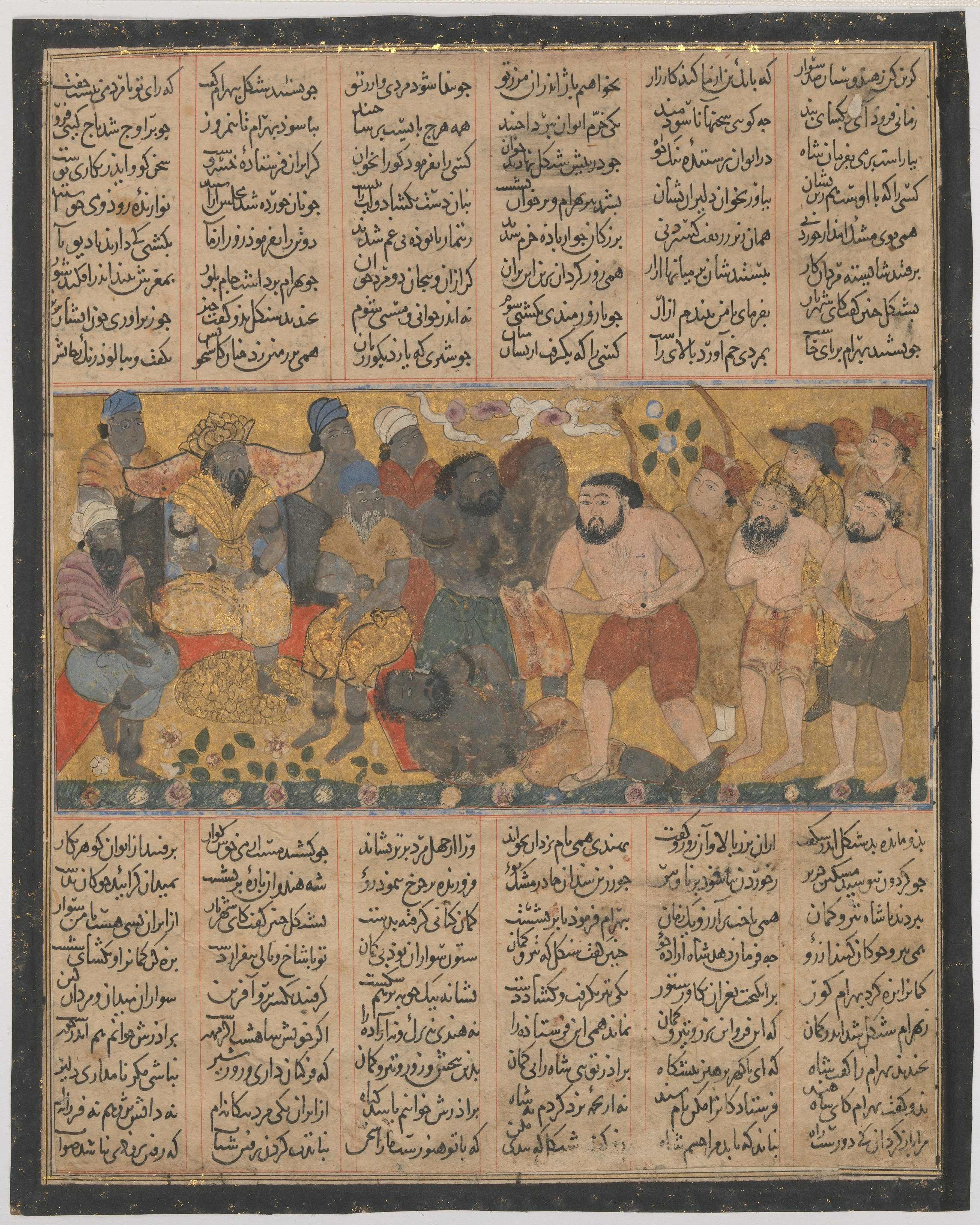 Folio from an illustrated manuscript; Codices